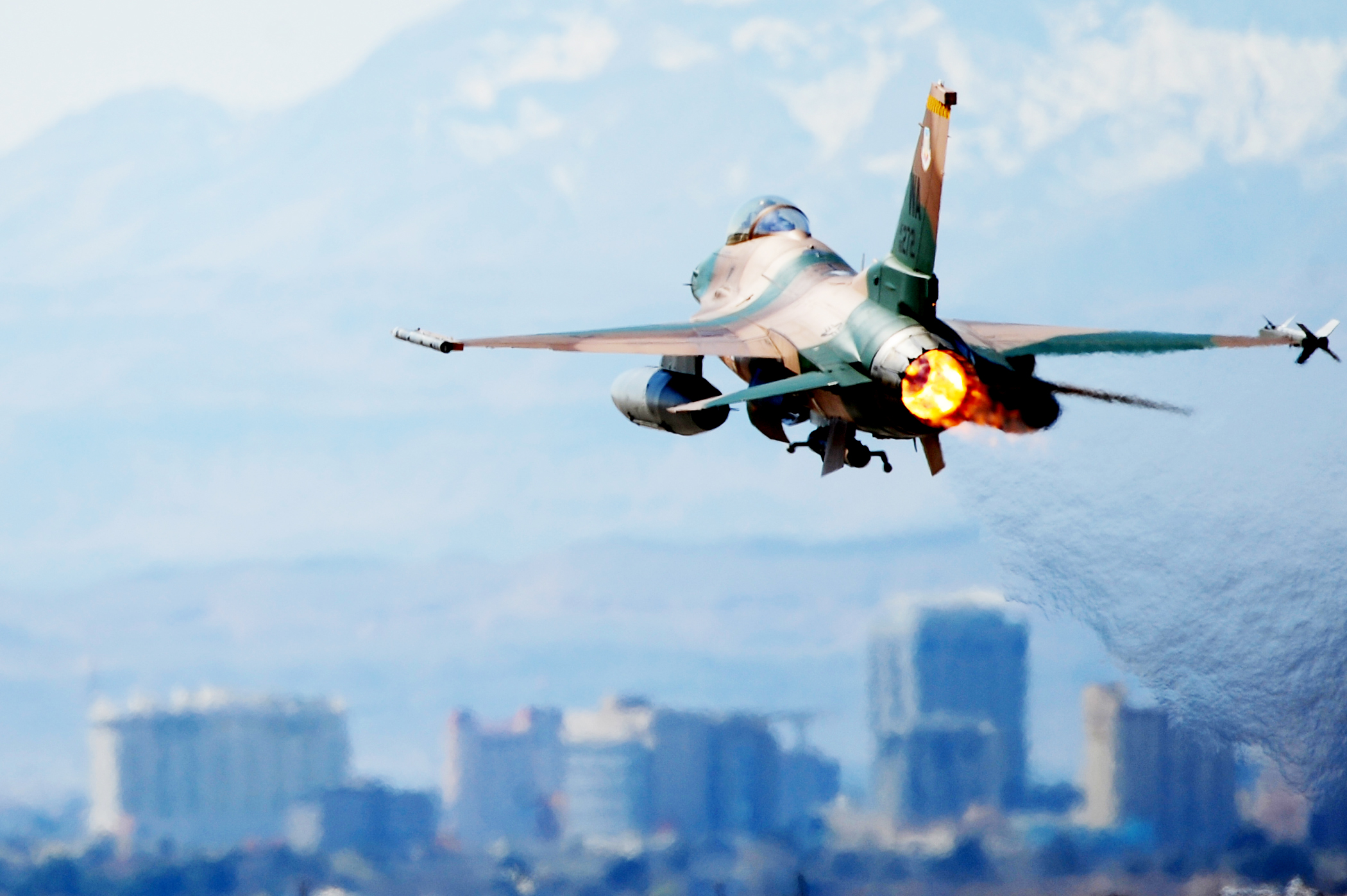 An F-16 Aggressor takes off March 3, 2010, during a Red Flag Exercise at Nellis Air Force Base, Nevada. Red Flag is a realistic combat training exercise involving the air forces of the United States and its allies. The exercise is conducted on the 15,000-square-mile Nevada Test and Training Range, north of Las Vegas.